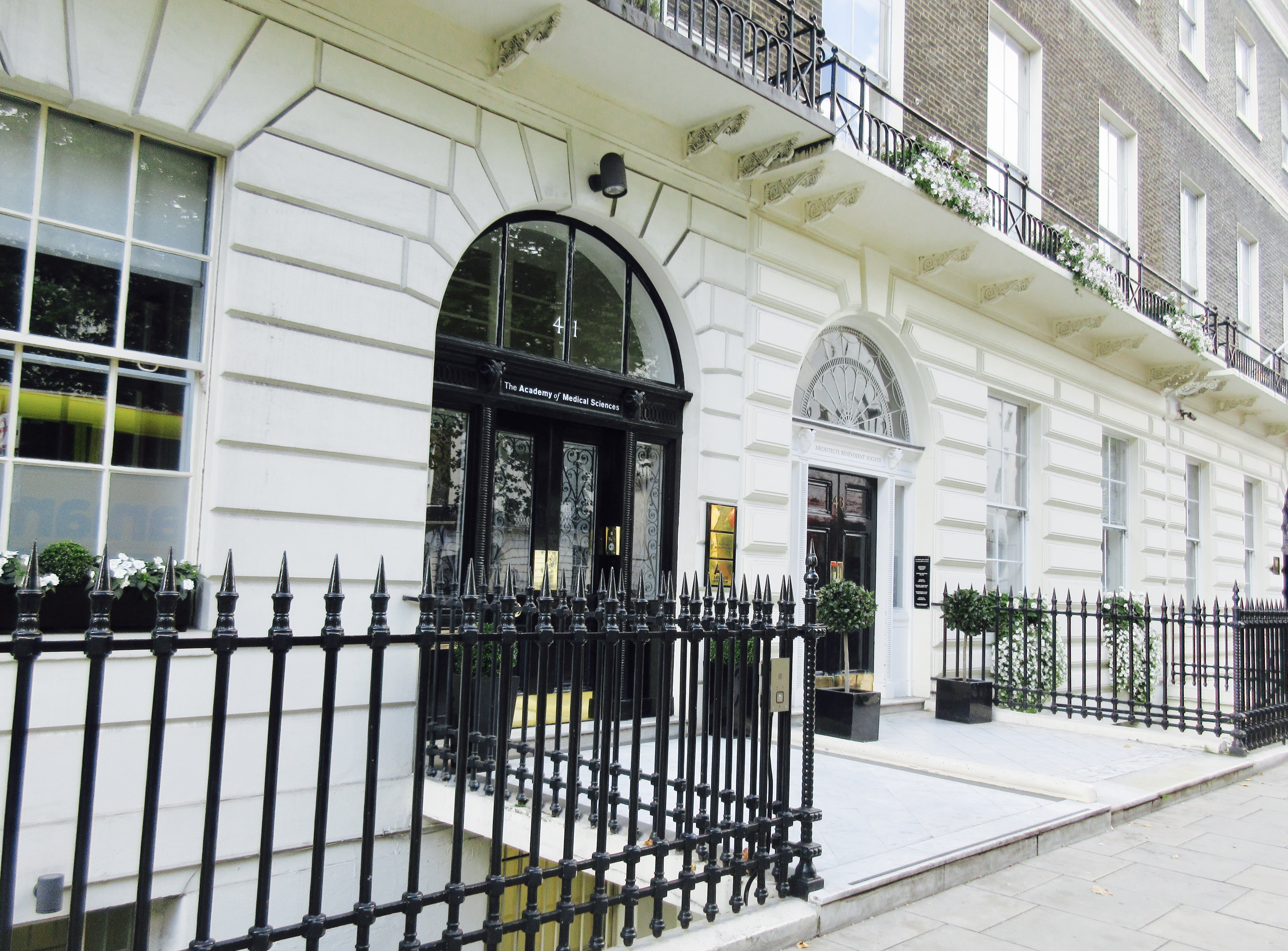 Side view of front door of Academy of Medical Sciences, 41 Portland Place